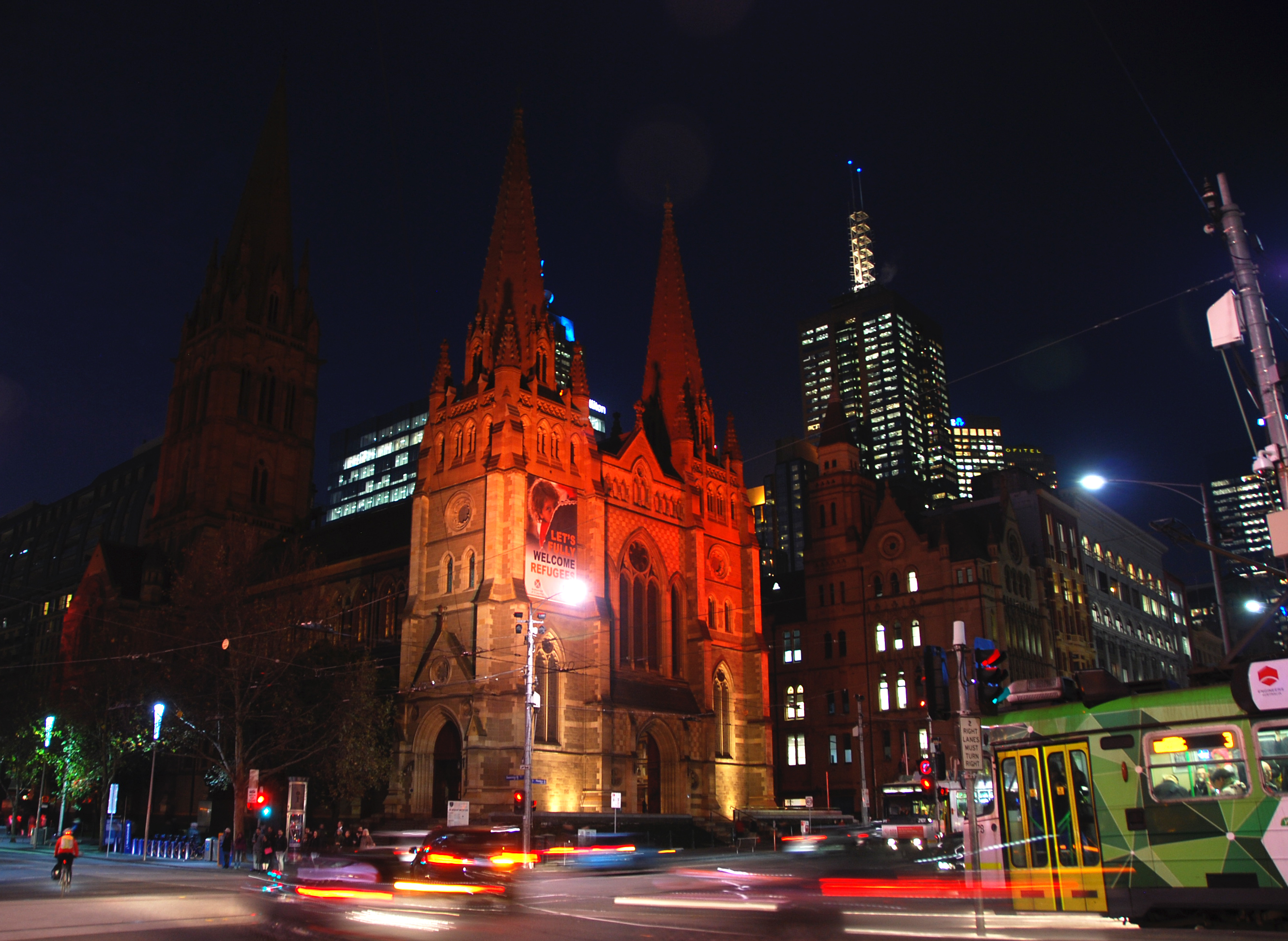 St Paul's Cathedral Melbourne. One of many landmark buildings lit up in red for AIDS 2014